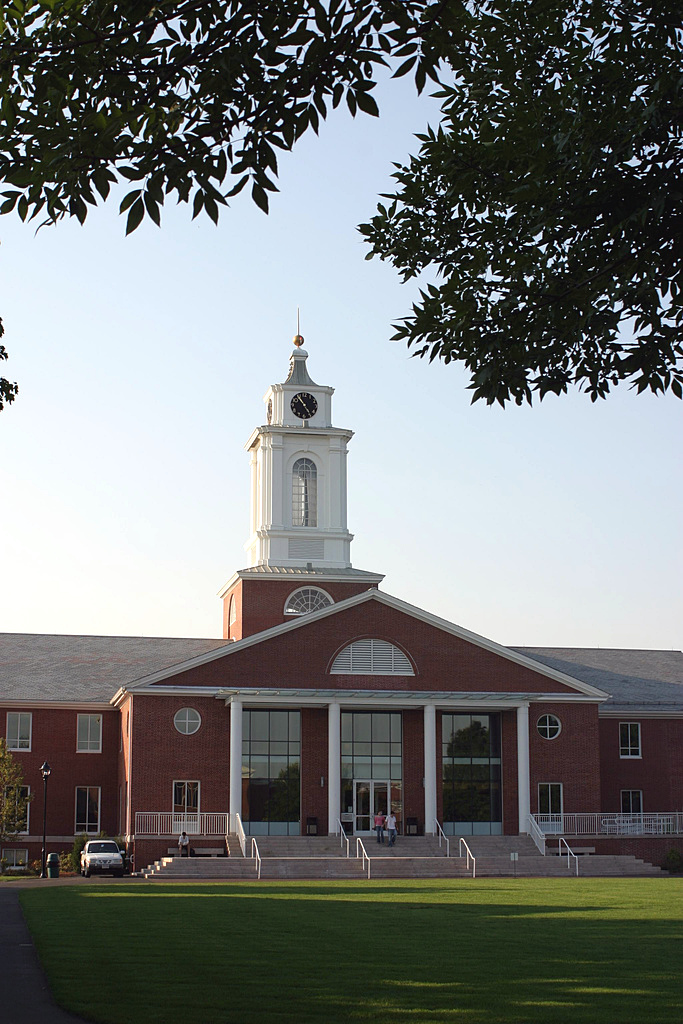 Bentley's Baker Library, as viewed from Adamian.